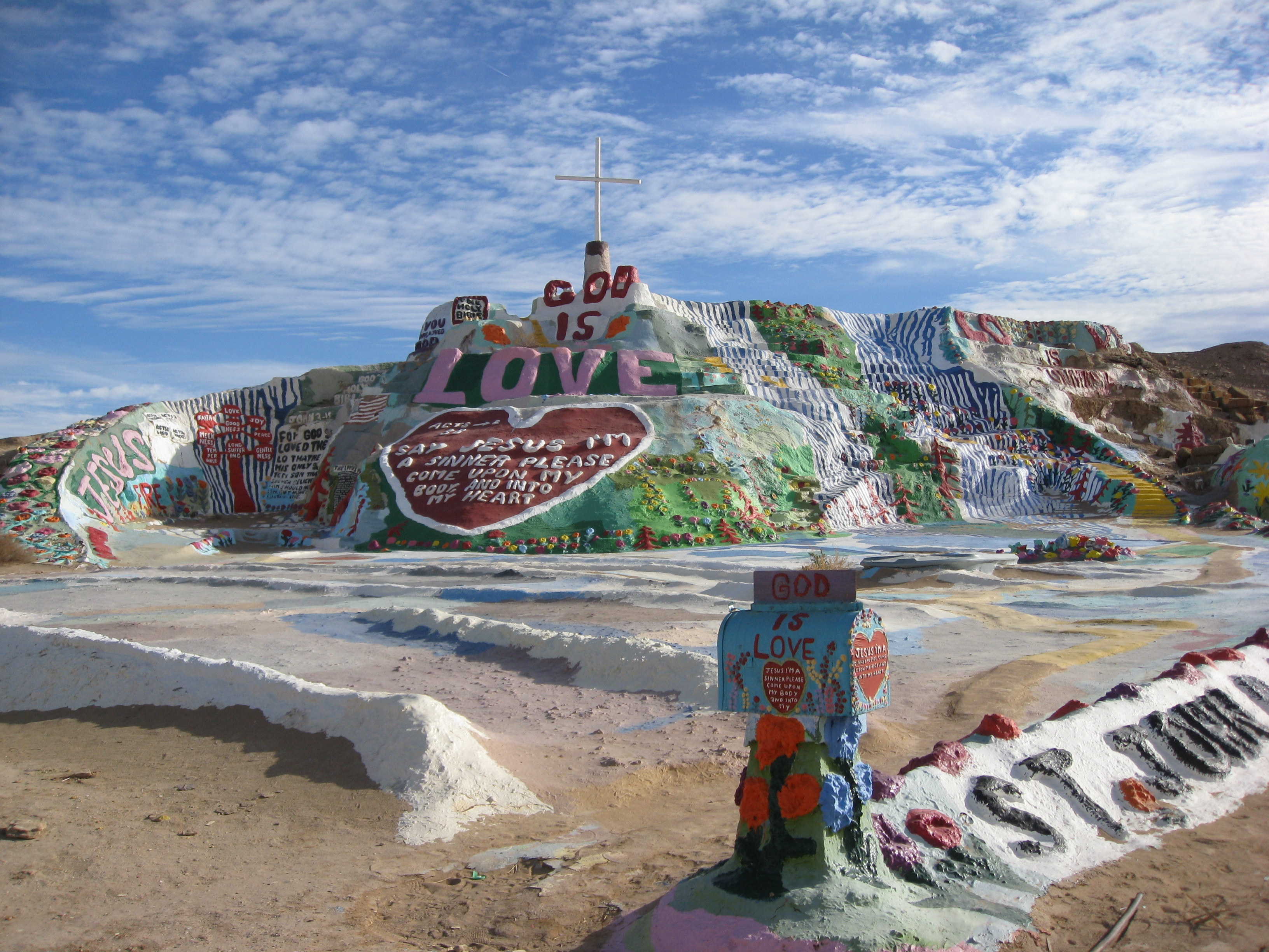 We visited "Salvation Mountain" in the morning. We were welcomed by Leonard's "Hello! Let me give you a tour of the Mountain!" We were so fortunate that there were just the two of us when he was giving us a tour. ”Salvation Mountain”に立ち寄った。朝が早かったから、観光客は私達だけだった。レオナルドに案内してもらった。ラッキー☆